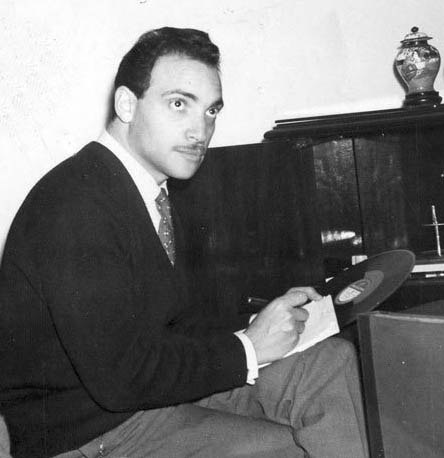 Argentine entrepreneur Alejandro Romay with his family at home.